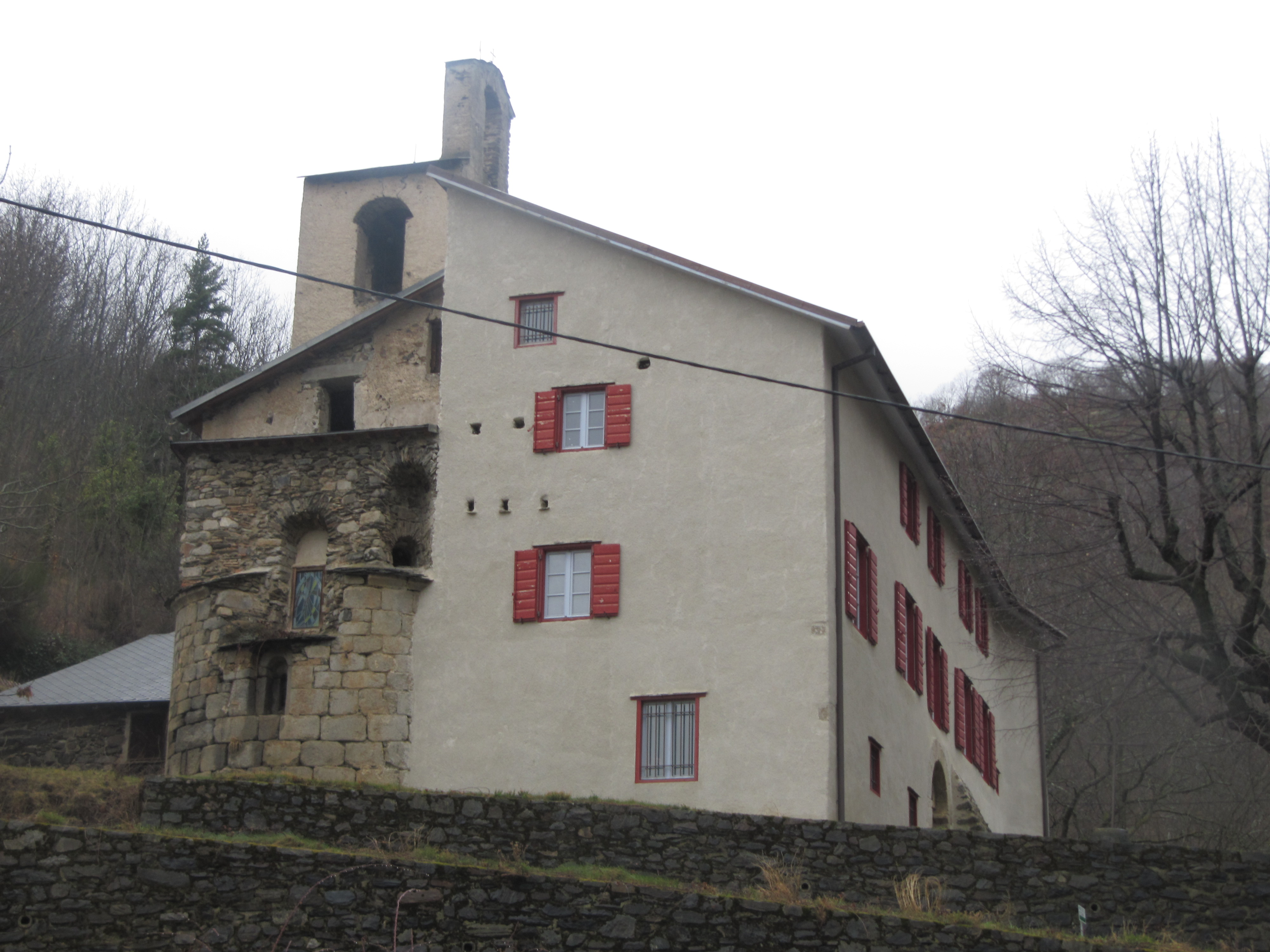 Photo of the little french town Urbanya